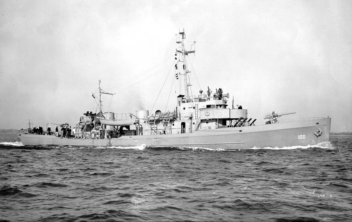 A U.S. Coast Guard cutter USCGC Argo (WPC-100) underway during the Second World War.